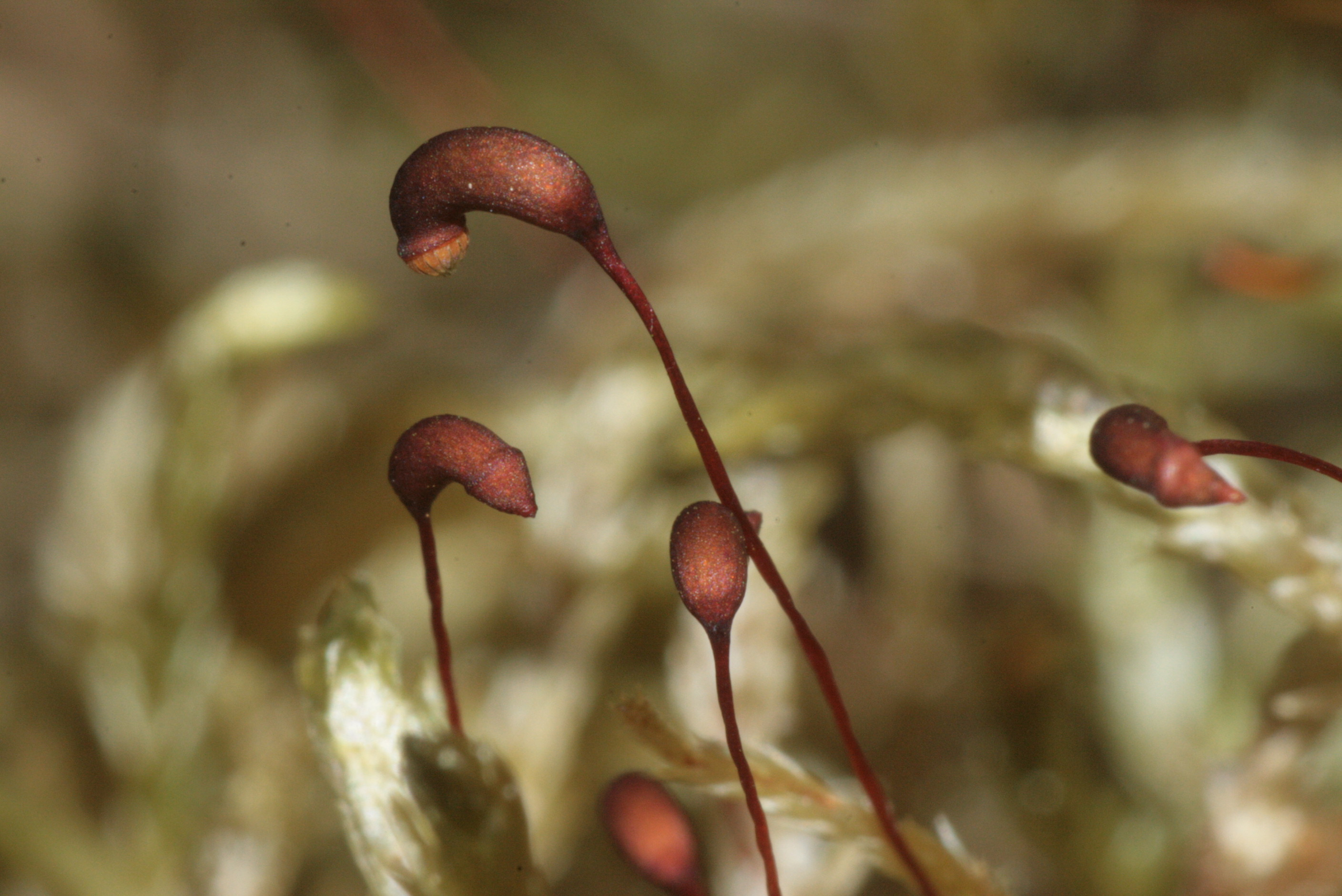 Pleurozium schreberi